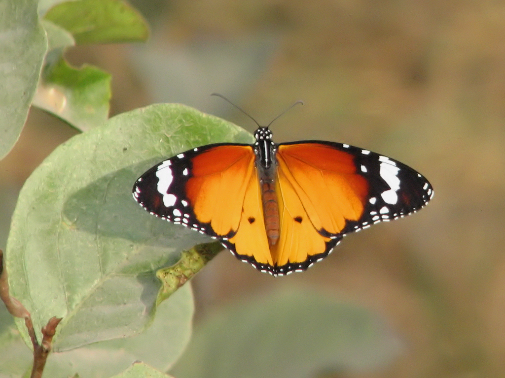 Plain Tiger (Danaus chrysippus chrysippus) female, Delphi, India